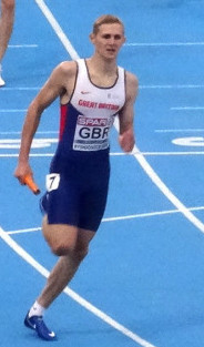 2017 European Athletics U23 Championships, 4x400m relay men final